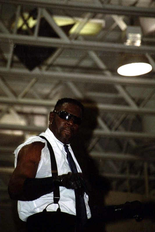 Wrestling legend Mr. Hughes on 3/28/09 from Franklin PA